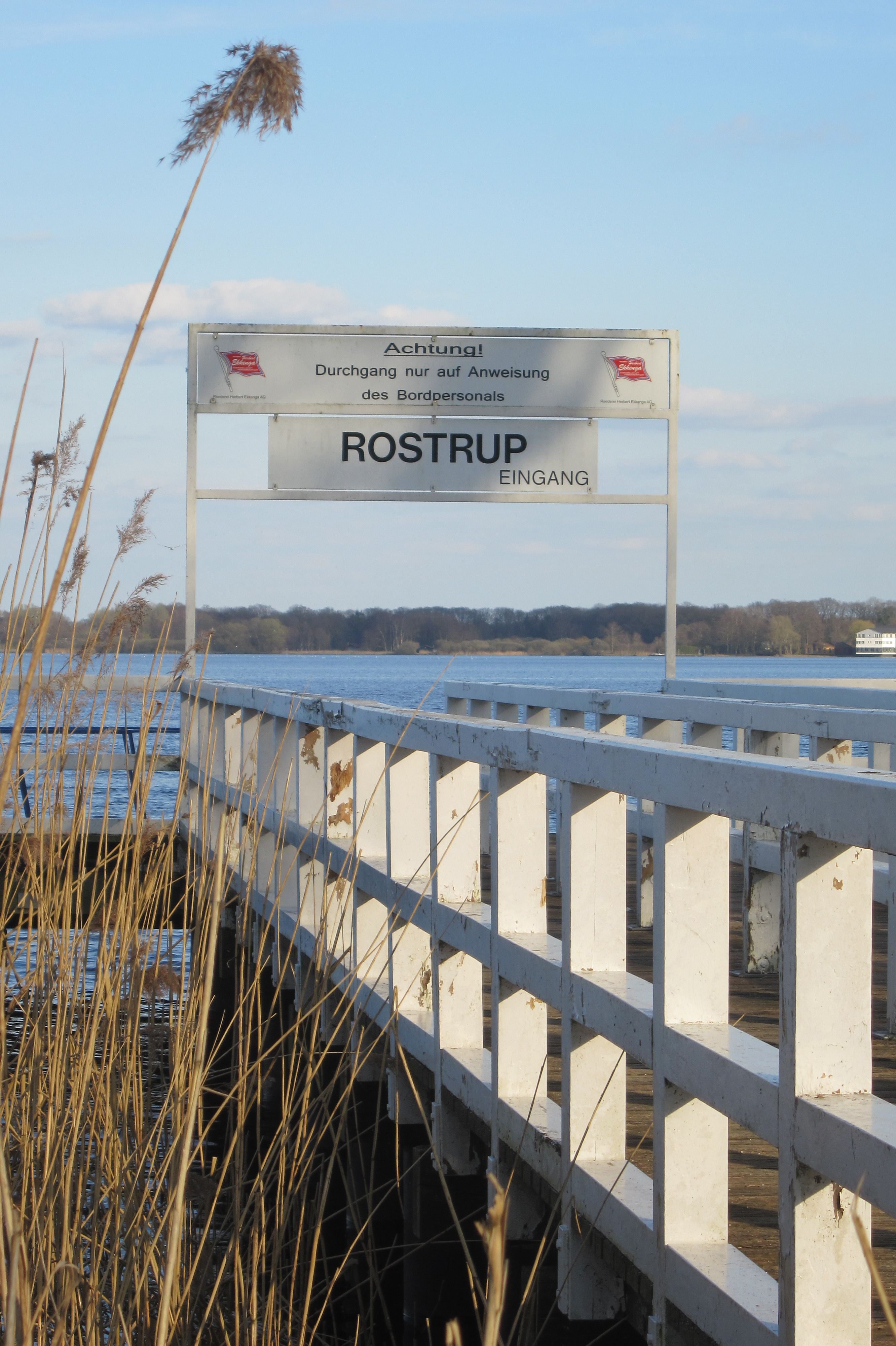 Boat stop or passsenger Ferries of Rostrup, Zwischenahner See.